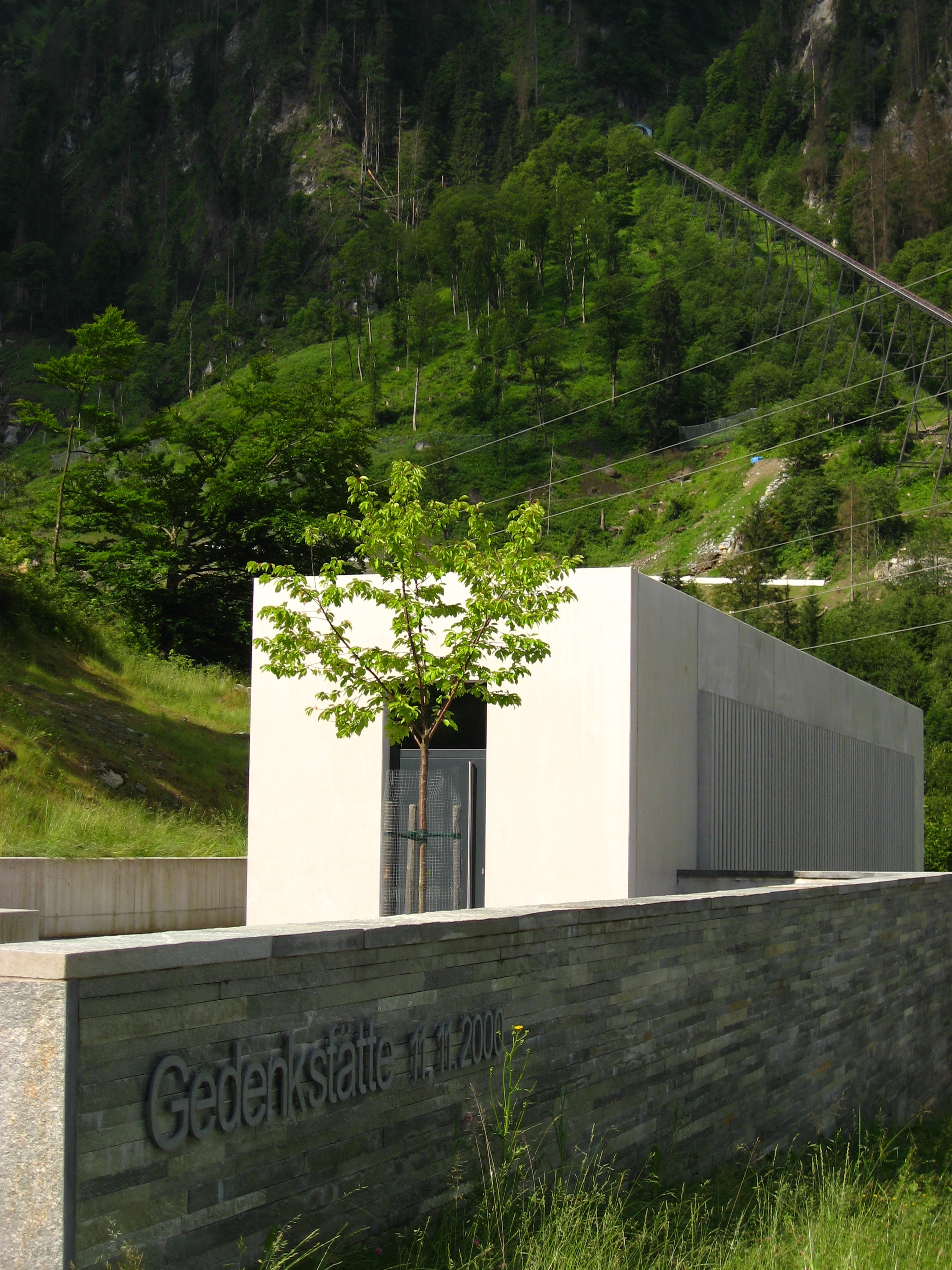 Memorial for the disaster on November 11, 2000 in Kaprun